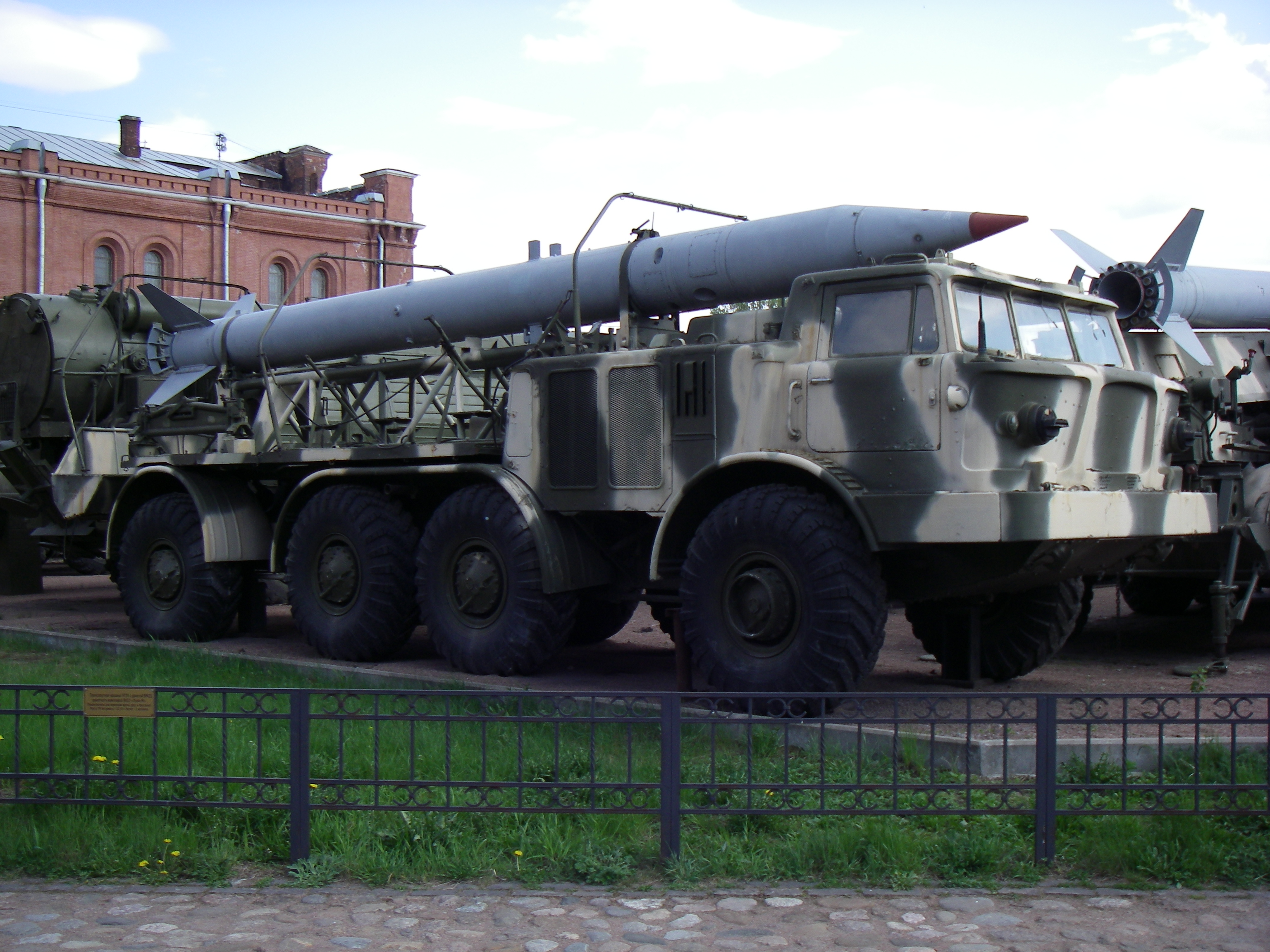 9T29 Transporter with 9M21 rocket of 9K52 missile complex «Luna-M» in Saint Petersburg Artillery museum